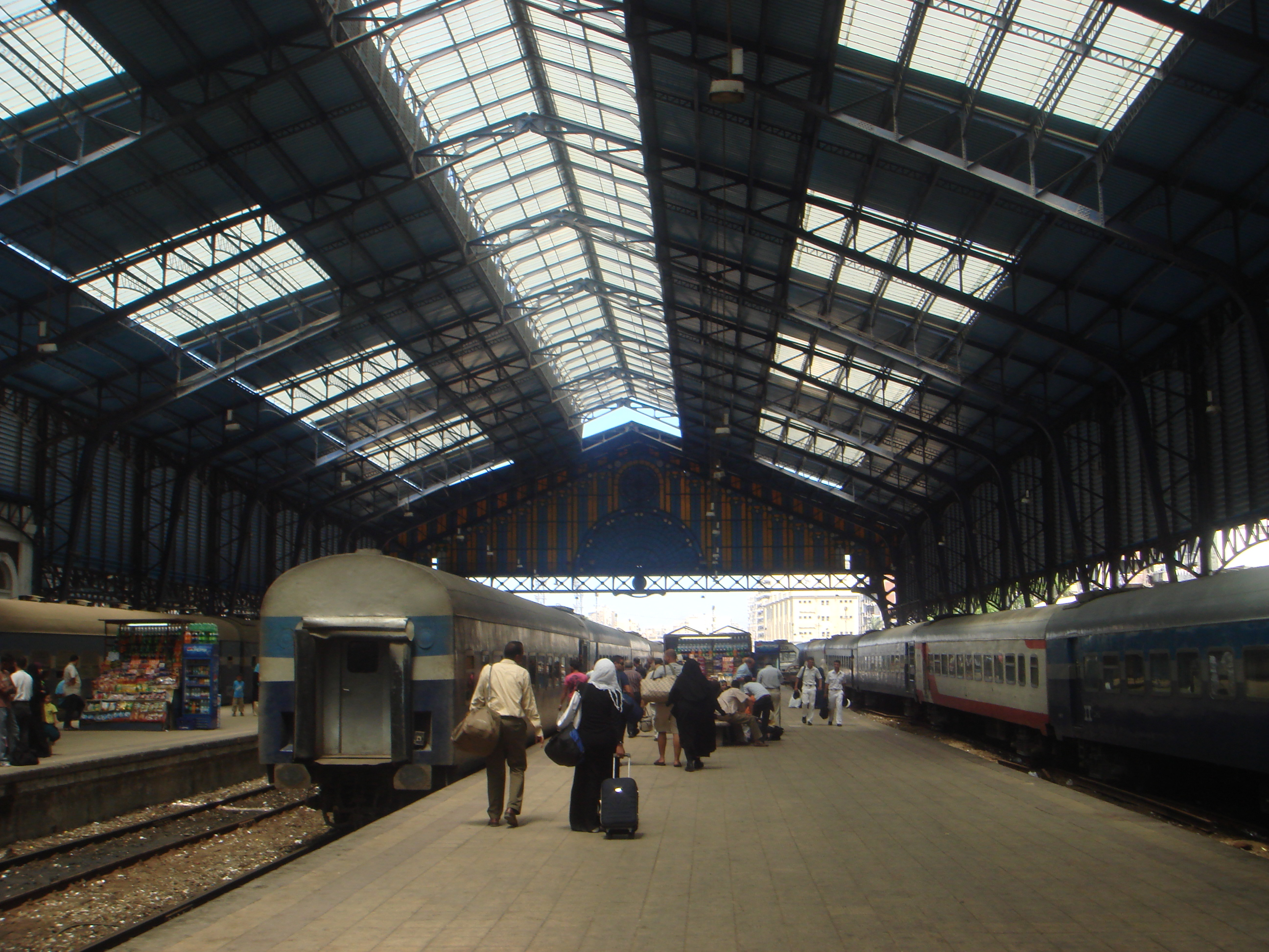 Inside the Misr Railway Station in Alexandria, Egypt.